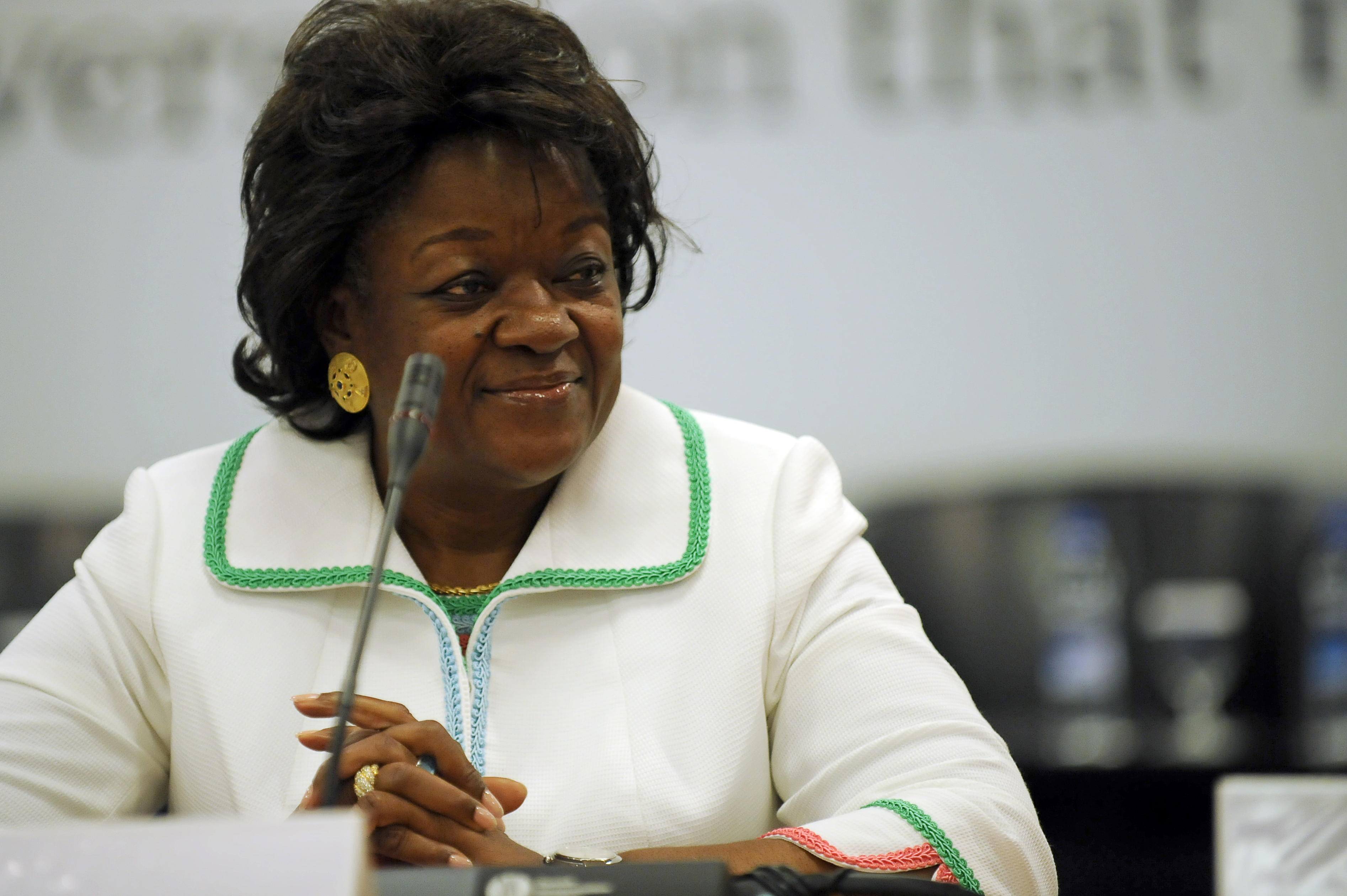 H.E. Mrs Laure Olga Gondjout, S.G. Presidence de la Republique, Gabonese Republic ITU/R.Farrell